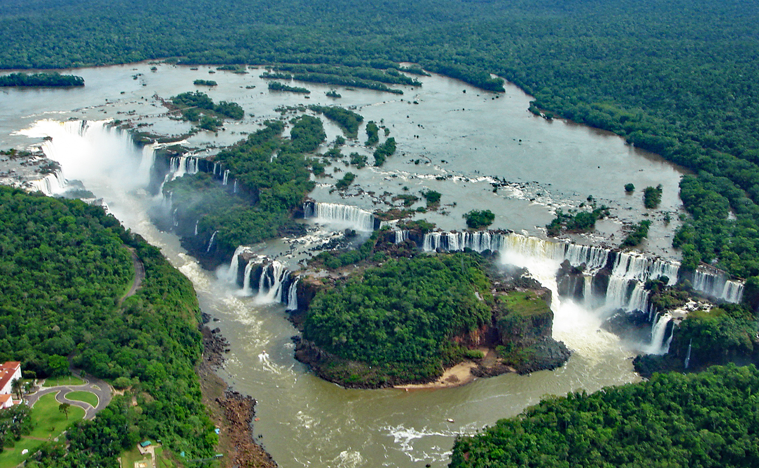 Aerial view of Foz de Iguaçu, Brazil-Argentina border.